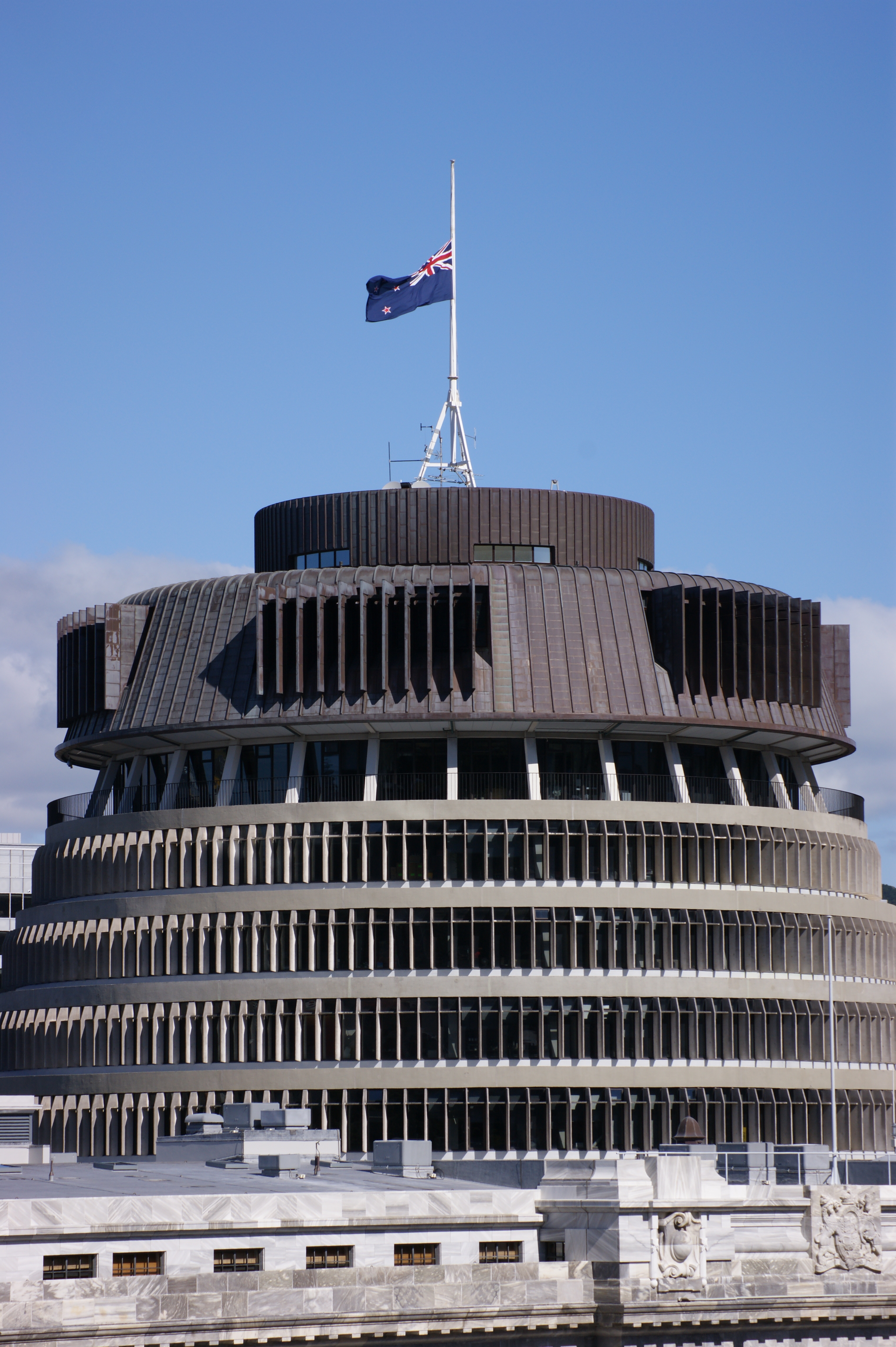 The flag on New Zealand's Executive Wing of Parliament, known as the 'Beehive', flies at half mast on December 2, 2010 to mark the official memorial service for the 29 miners who died in the Pike River Mine tragedy 13 days earlier. The white marble Parliament House building in the foreground.